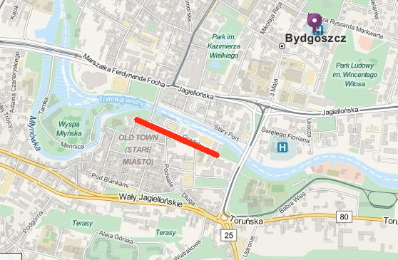 Detailed old town bydgoszcz map